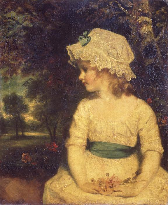 Miss Theophila Gwatkin (1782–1844) as Simplicity.